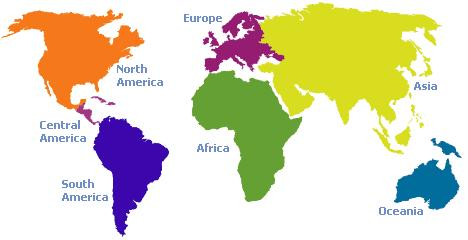 This is a map of the world continents and this it's public domain because it was made by me so I ralease all rights.